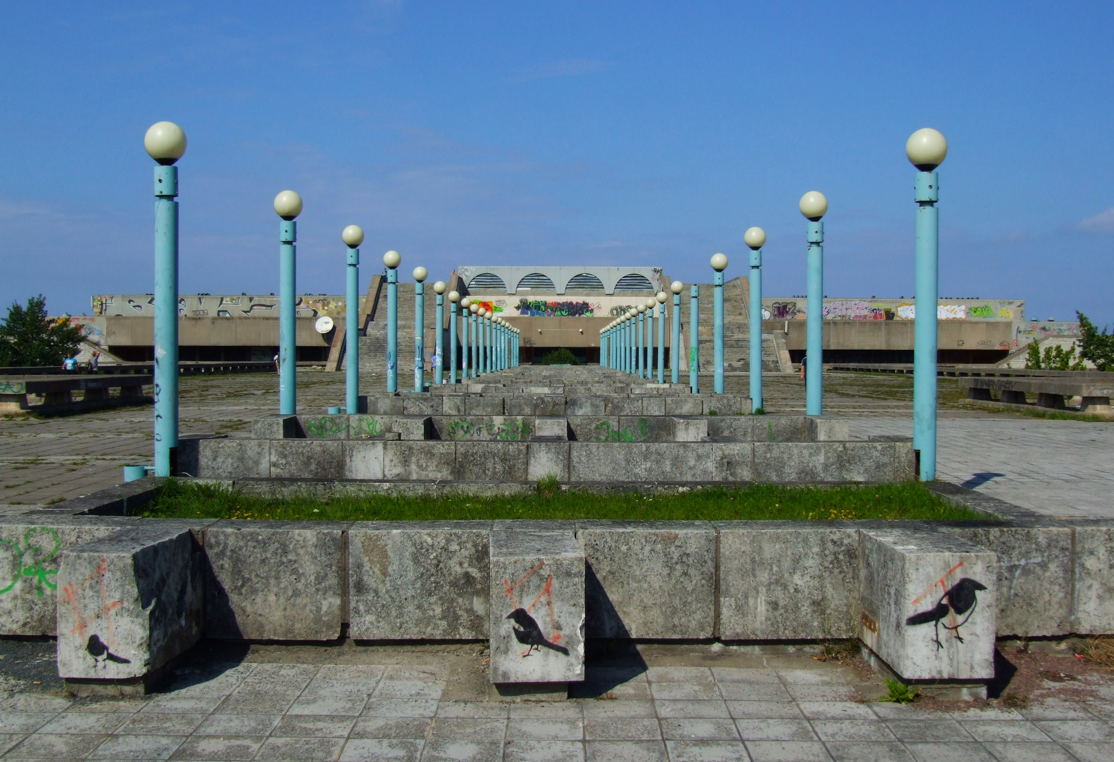 Linnahall, Tallinn